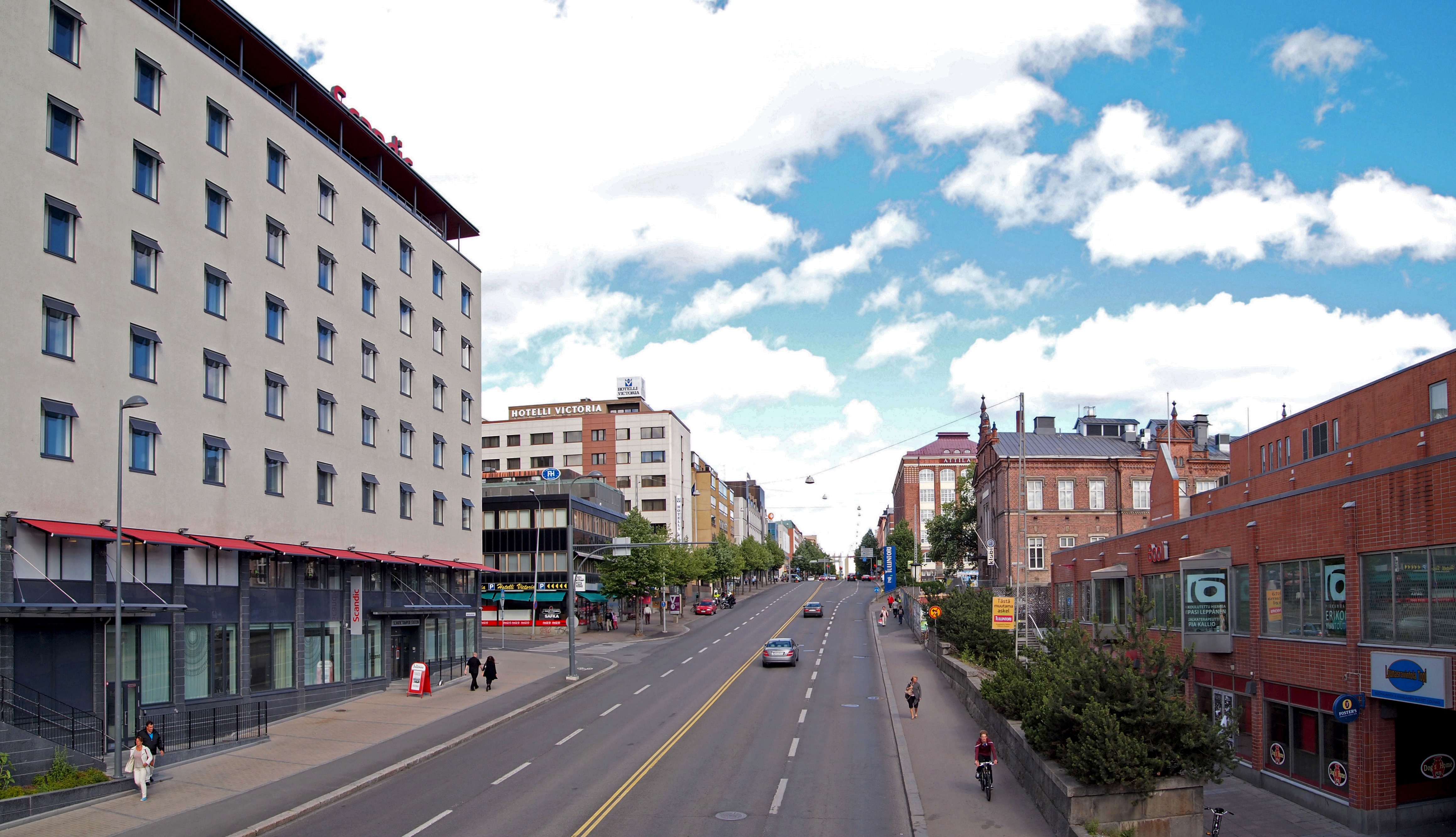 Street Itsenäisyydenkatu in Tampere. This photograph was taken with a Olympus E-PL1.